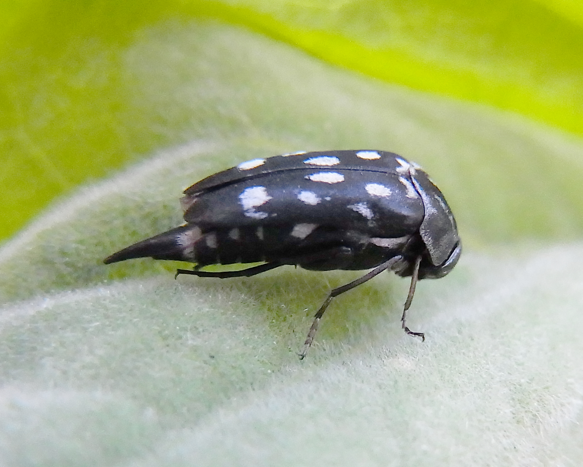 Hoshihananomia perlata from Hungary, near Tokaj at 2012-06-24